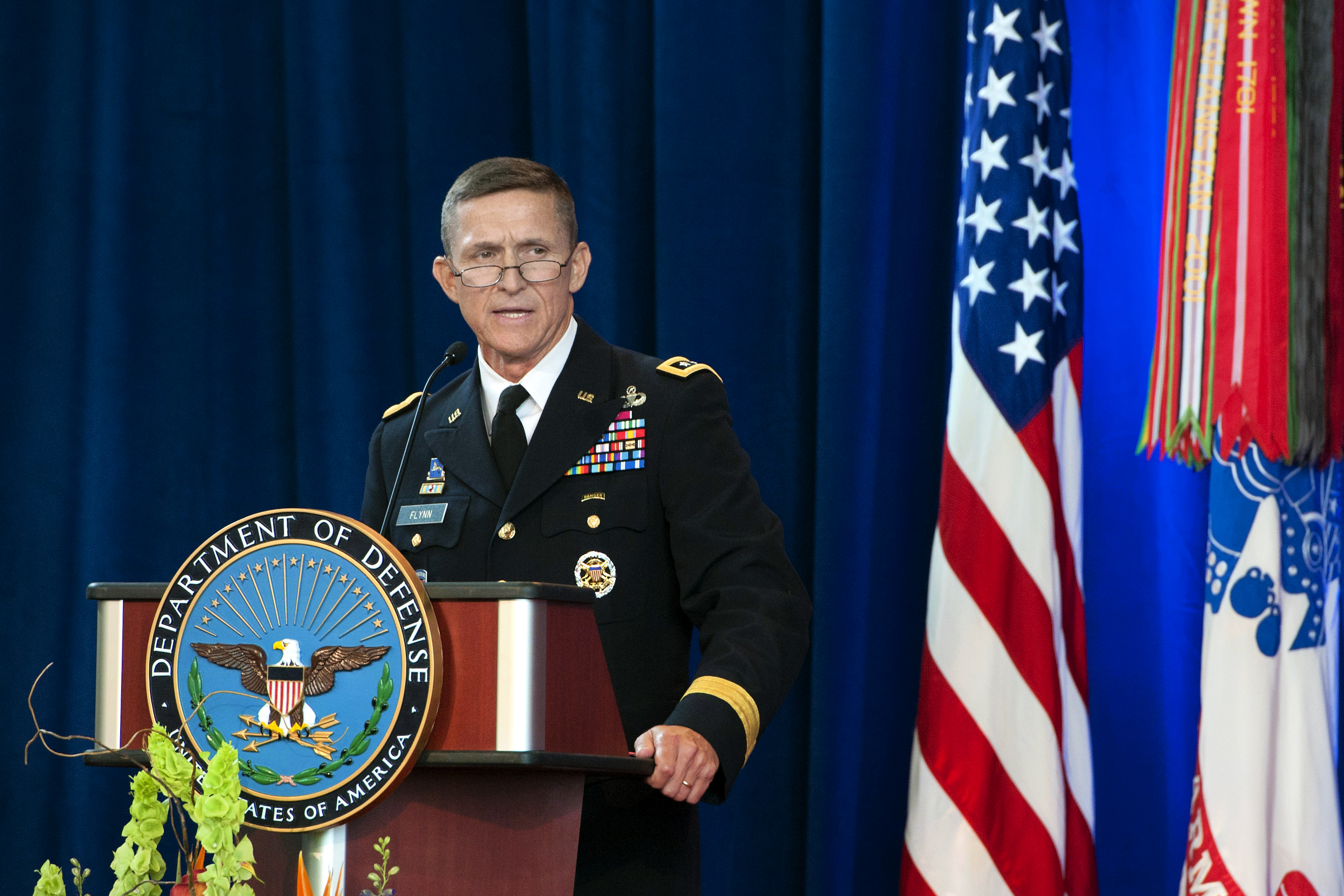 Army Lt. Gen. Michael T. Flynn speaks during the change of directorship for the Defense Intelligence Agency on Joint Base Anacostia-Bolling in Washington, D.C., July 24, 2012. Flynn took over directorship from Army Lt. Gen. Ronald L. Burgess Jr., who had served in the position since 2009.